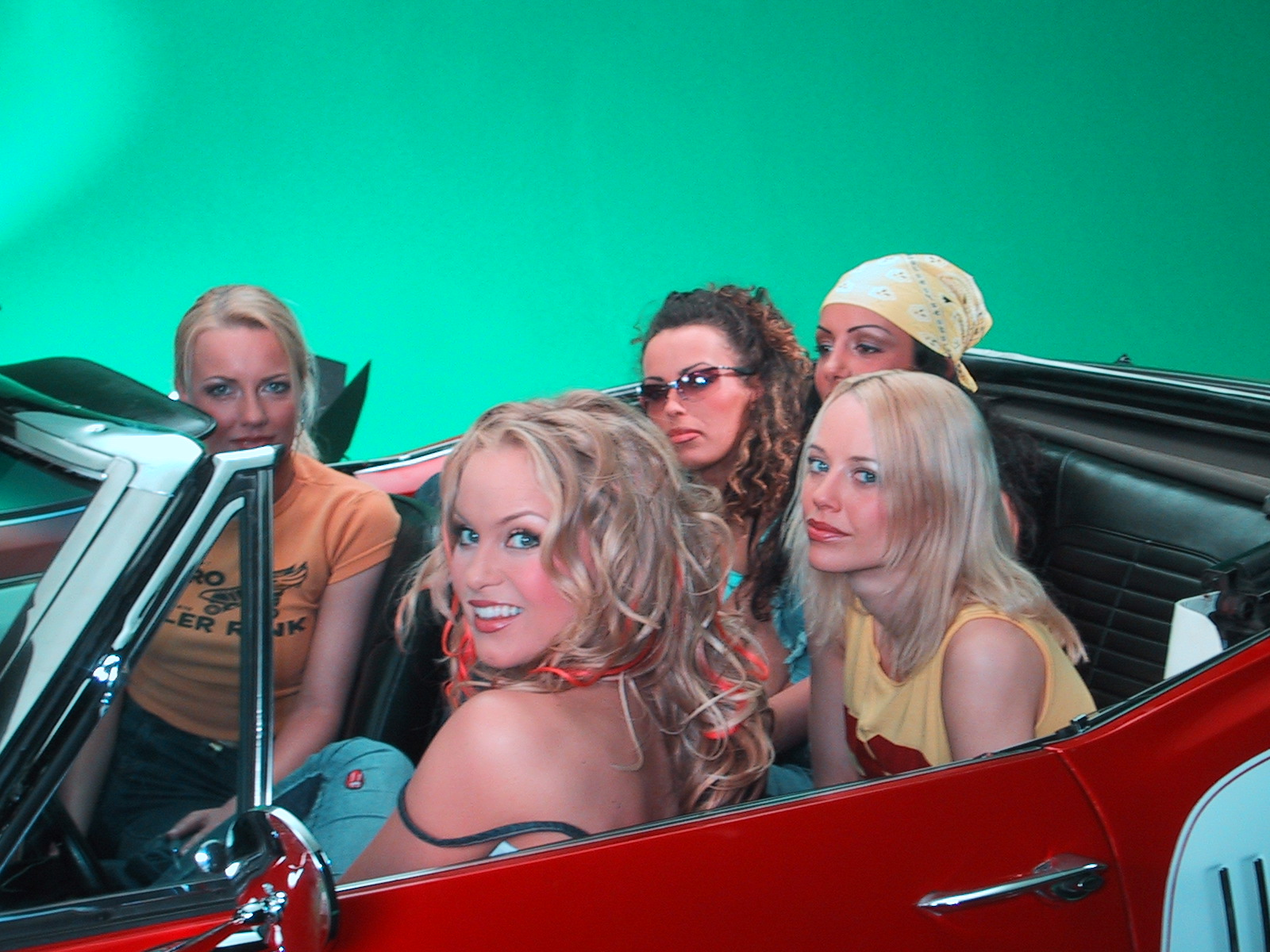 Rollergirl - Making of video Close To You